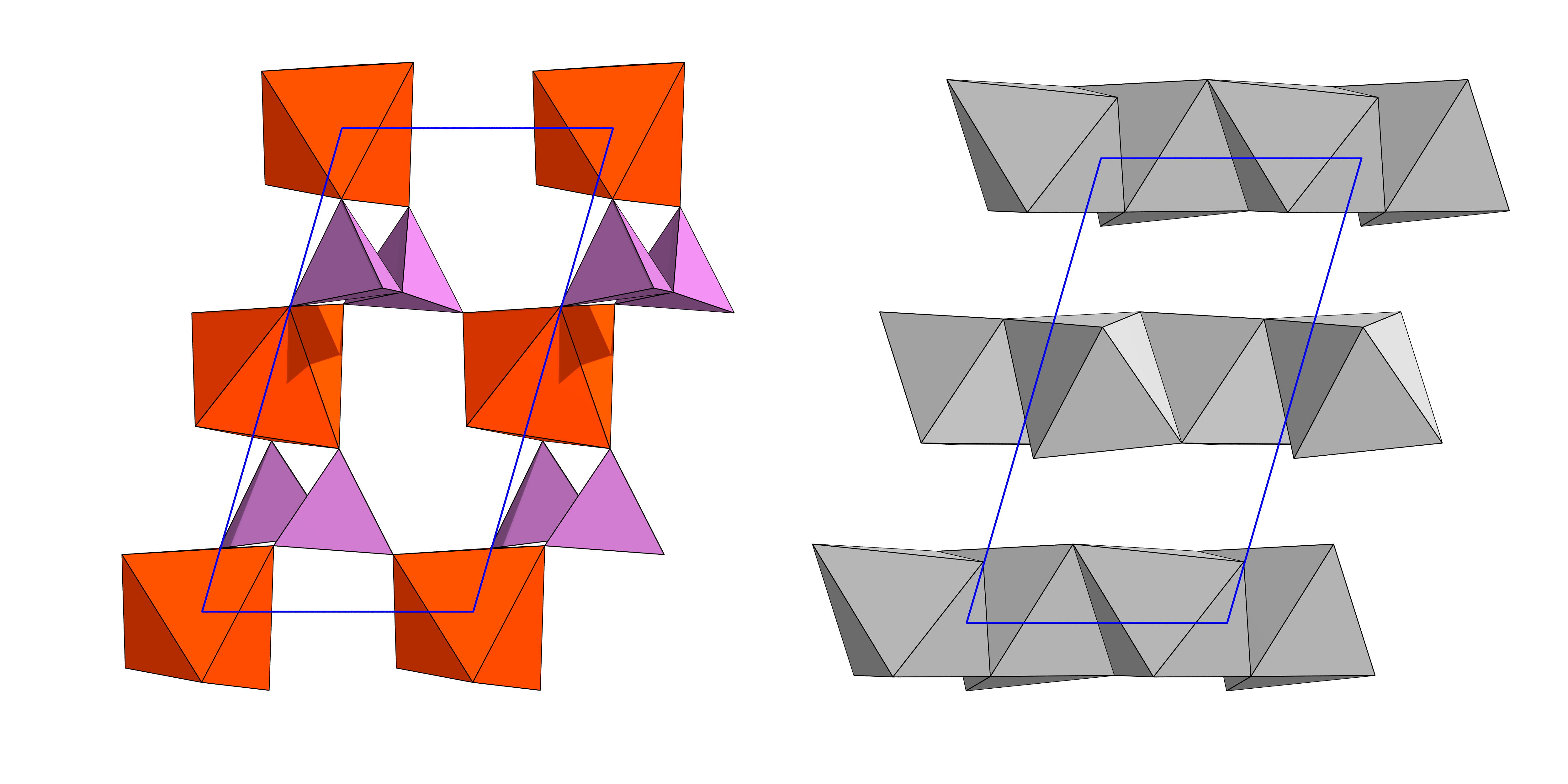 Canaphite structure: Linking of coordination polyhedra, viewed along b-axis Left: sheet of corner sharing phosphate tetrahedra (violet) and calcium octahedron (orange) right: chains of edge sharing sodium octahedron Daten von: Roland C. Rouse, Donald R. Peacor, Robert L. Freed (1988): Pyrophosphate groups in the structure of canaphite, CaNa2P2O7.4H2O: The first occurrence of a condensed phosphate as a mineral, American Mineralogist 73, pp. 168-171 Image calculation: Larry W. Finger, Martin Kroeker, and Brian H. Toby, DRAWxtl, an open-source computer program to produce crystal-structure drawings, J. Applied Crystallography V40, pp. 188-192, 2007 Rendering: POVRAY